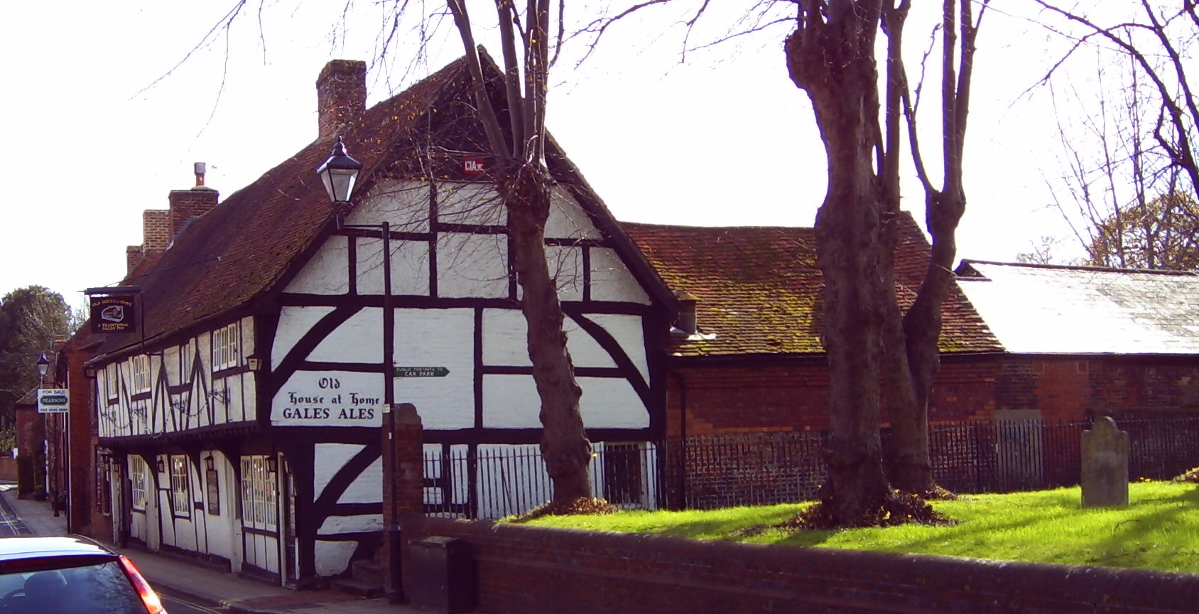 The Old House At Home, Havant. Photo taken by Ben Wheatley on 14/04/2005.